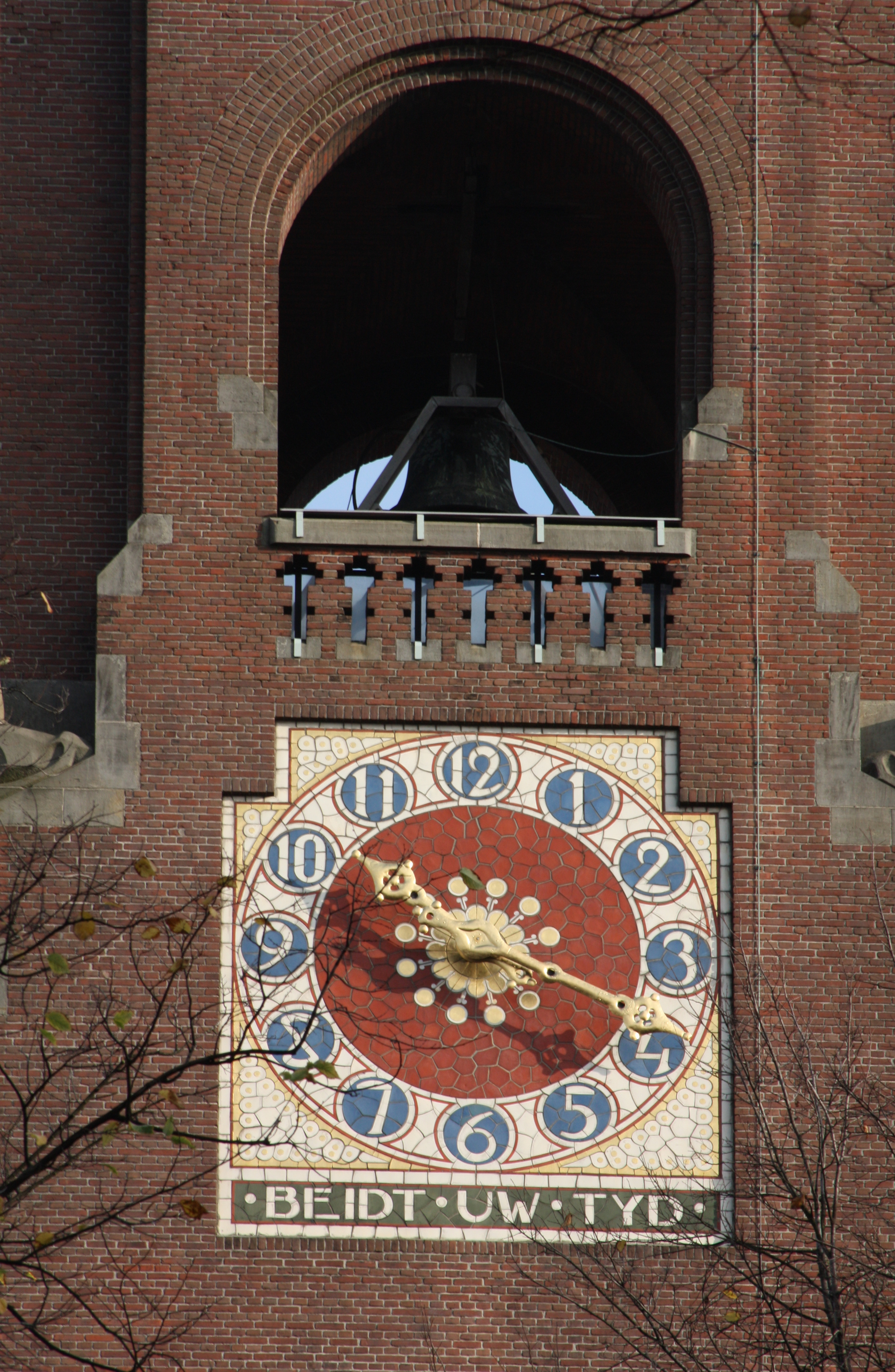 Beurs van Berlage, Amsterdam Zentrum. "BEIDT UW TYD"